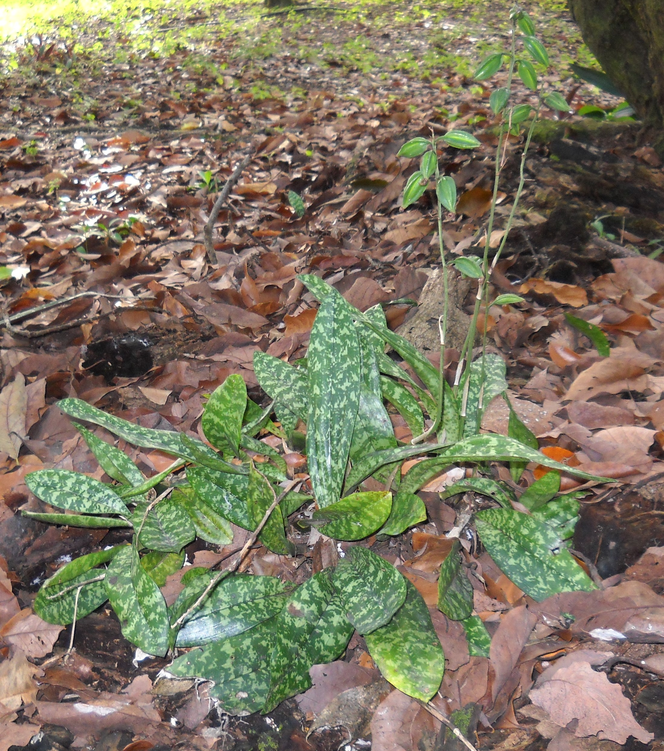 Oeceoclades maculata with infructescences Other information Homestead Florida